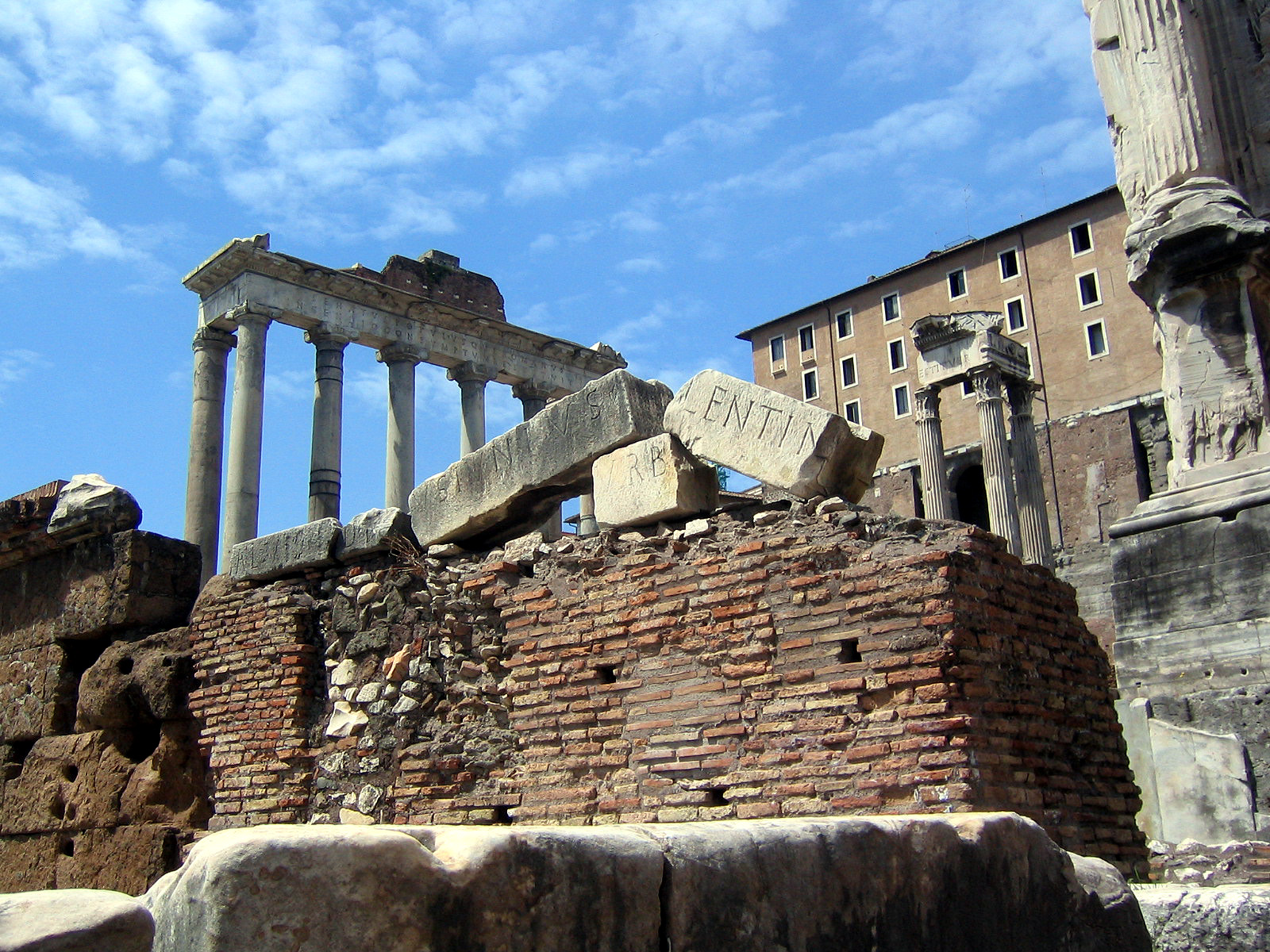 Rostra vandalica with inscription by Iunuis Valentinus and temple of Saturn "These fragments I have shored up against my ruin": TS Eliot might have been writing of the Roman Forum. Centuries of visitors have brooded on the transience of human glory here.